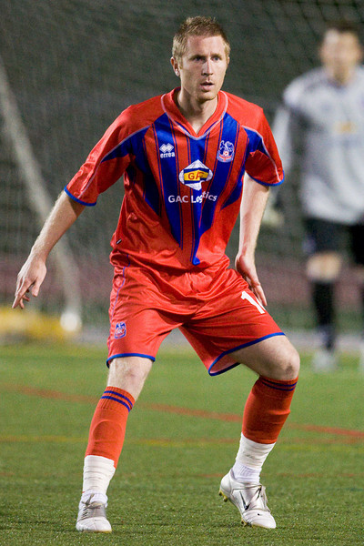 American defender, Mike Lookingland, playing for Crystal Palace FC USA in a soccer match at UMBC Stadium in Catonsville MD on May 10 2008 against the Wilmington Hammerheads in the United Soccer Leagues 2nd Division.